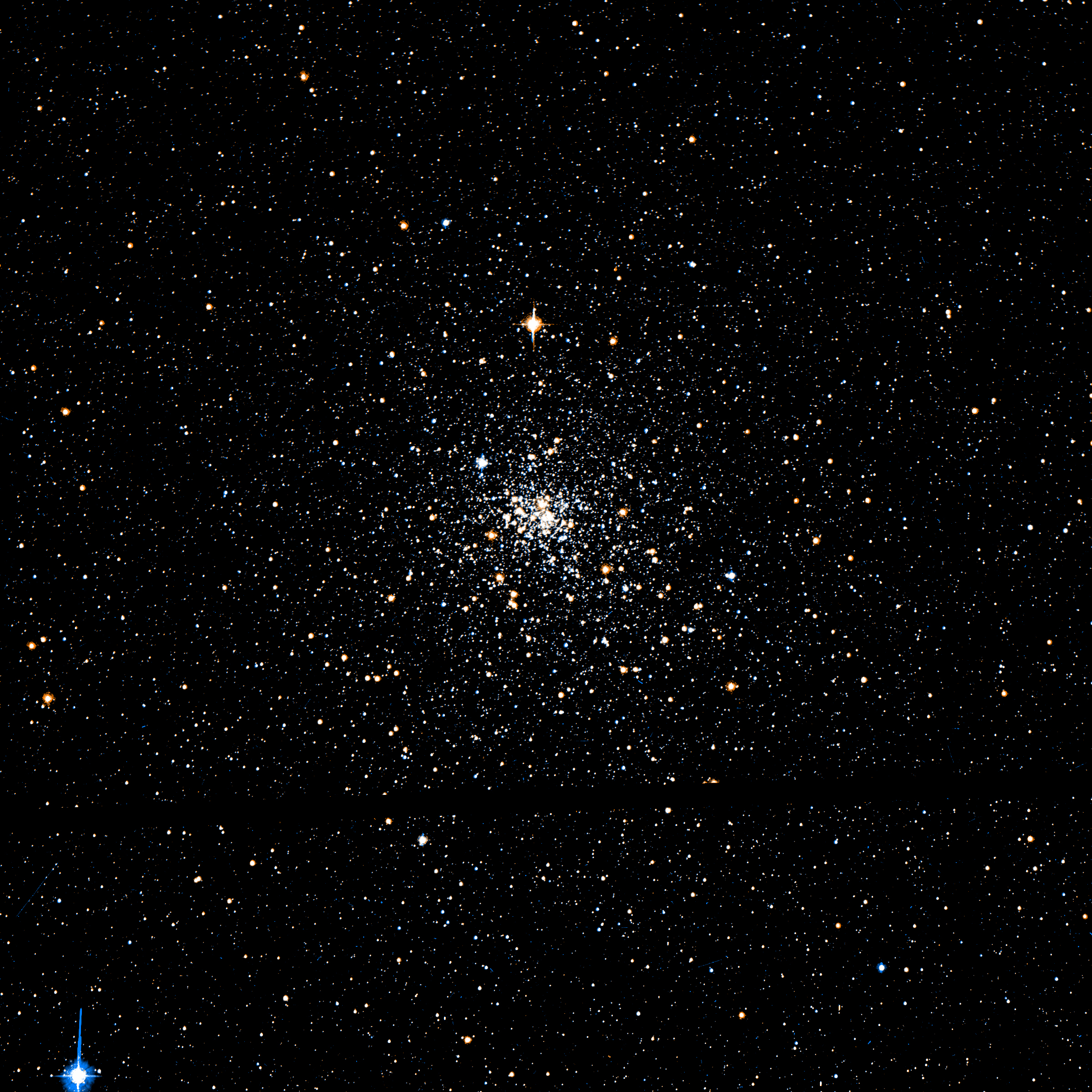 Globular cluster NGC 6522, by HST (ACS:435 and 658 nm).